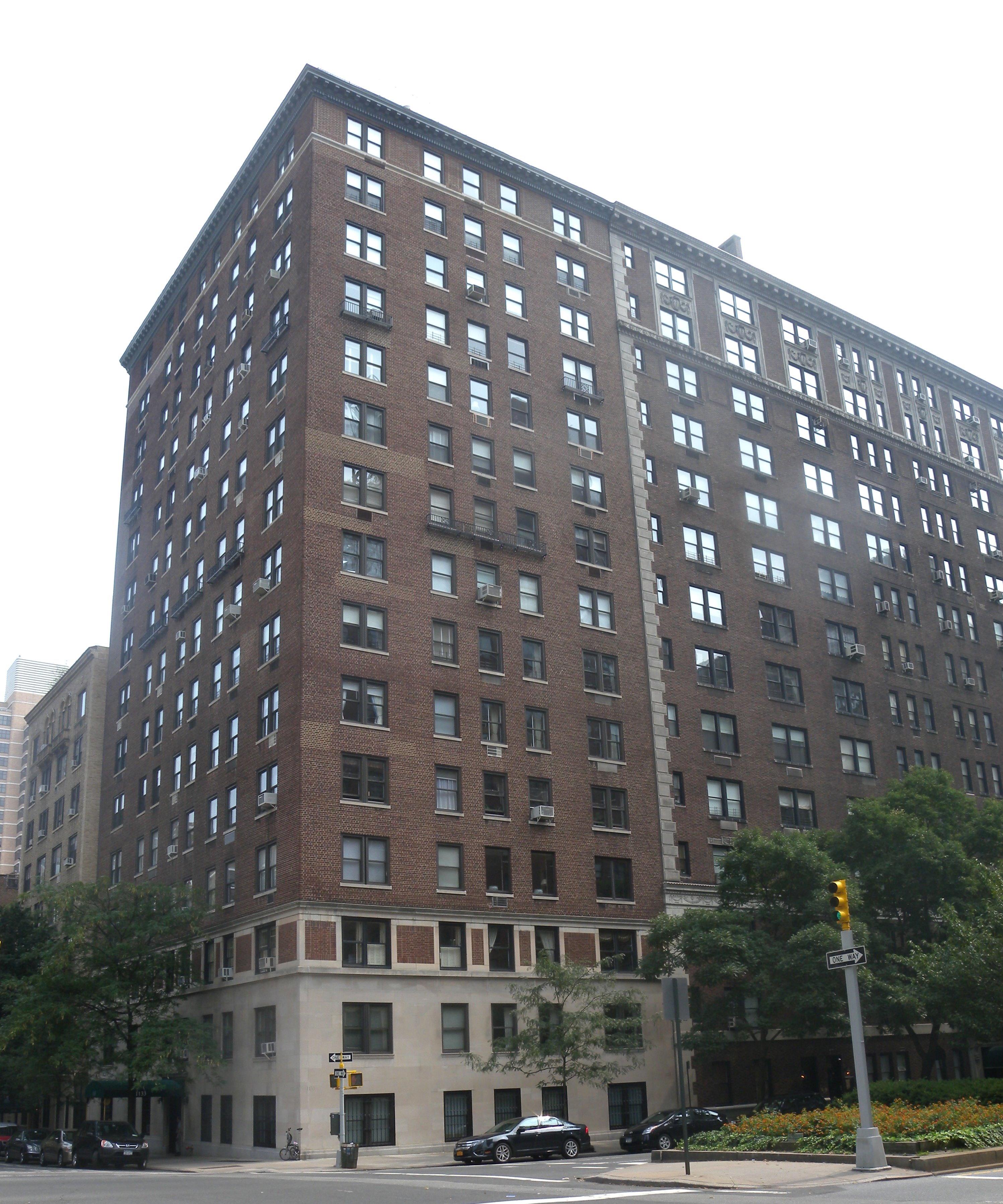 Looking southeast across Park Avenue and 91st St at 1133 Pk Av; childhood home of Salinger.